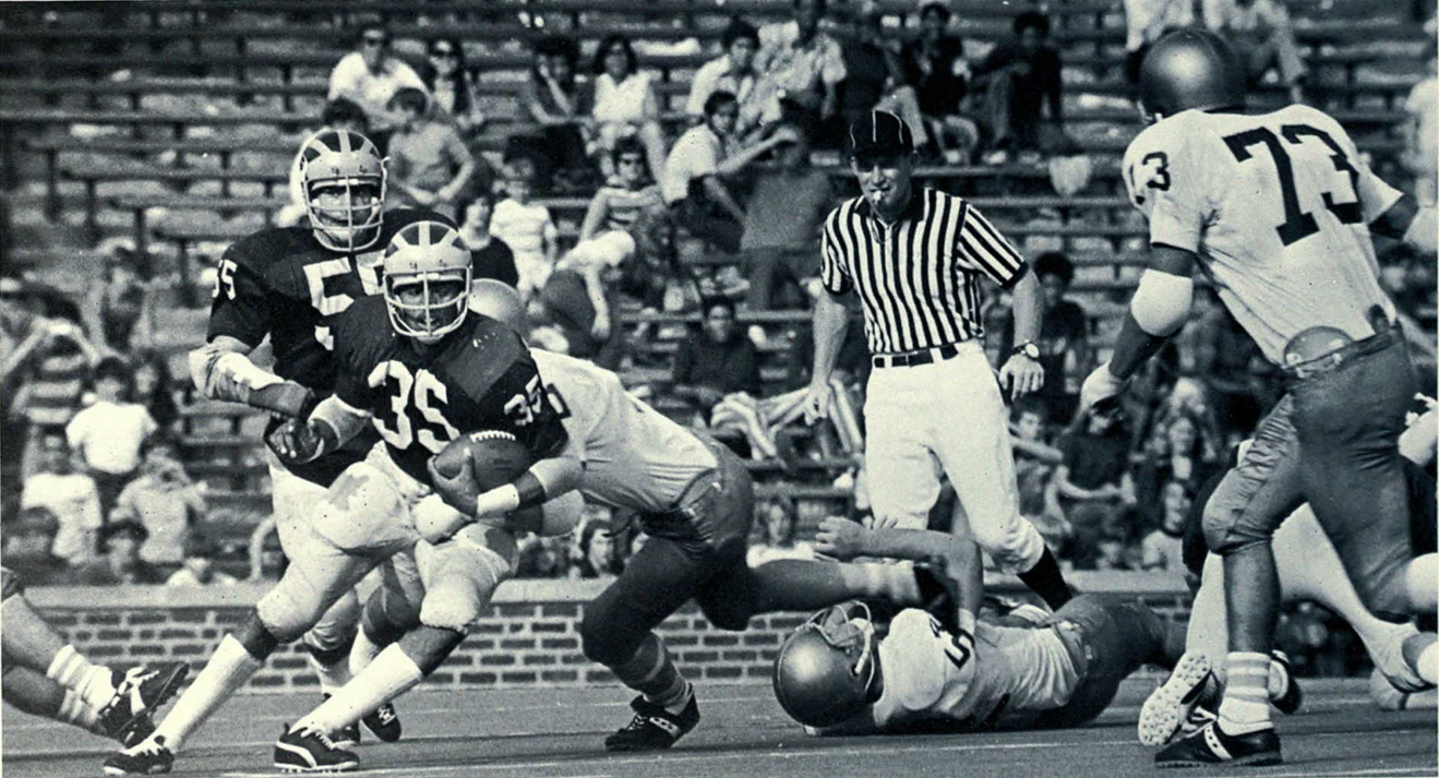 Photograph of Thom Darden (No. 35)